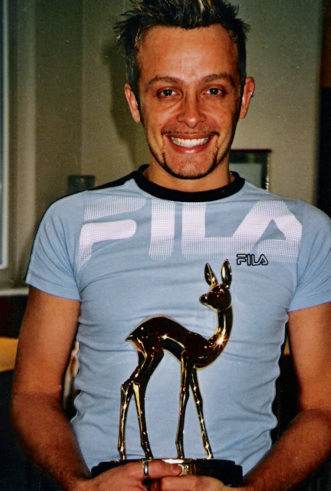 Ross with the "Bambi" in Weinheim (2002)